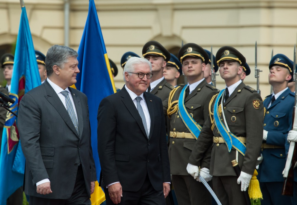 Зустріч Президента України з Федеральним Президентом ФРН